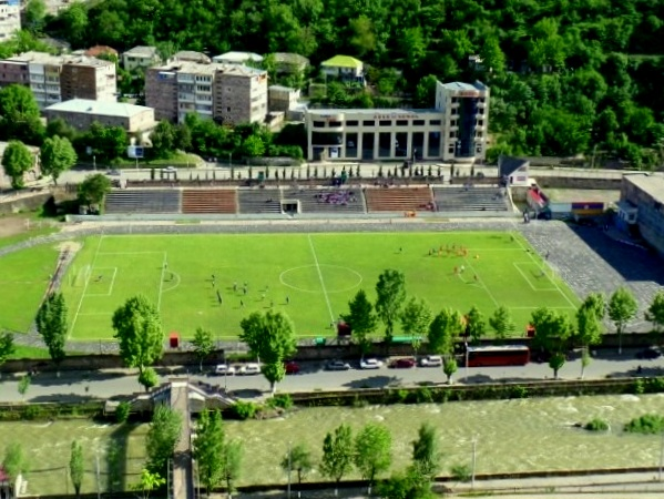 Gandzasar Stadium, Kapan, Armenia, May 2012